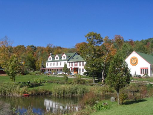 A photograph of Karme Choling from the parking lot, showcasing the pond and front of the building.